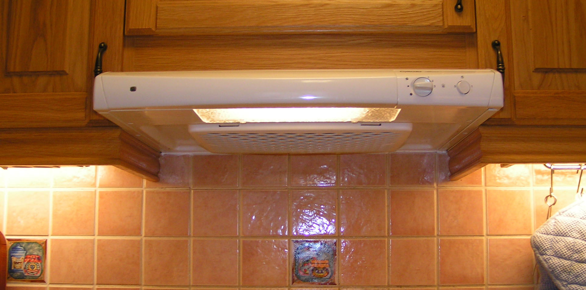 Kitchen stove fan.